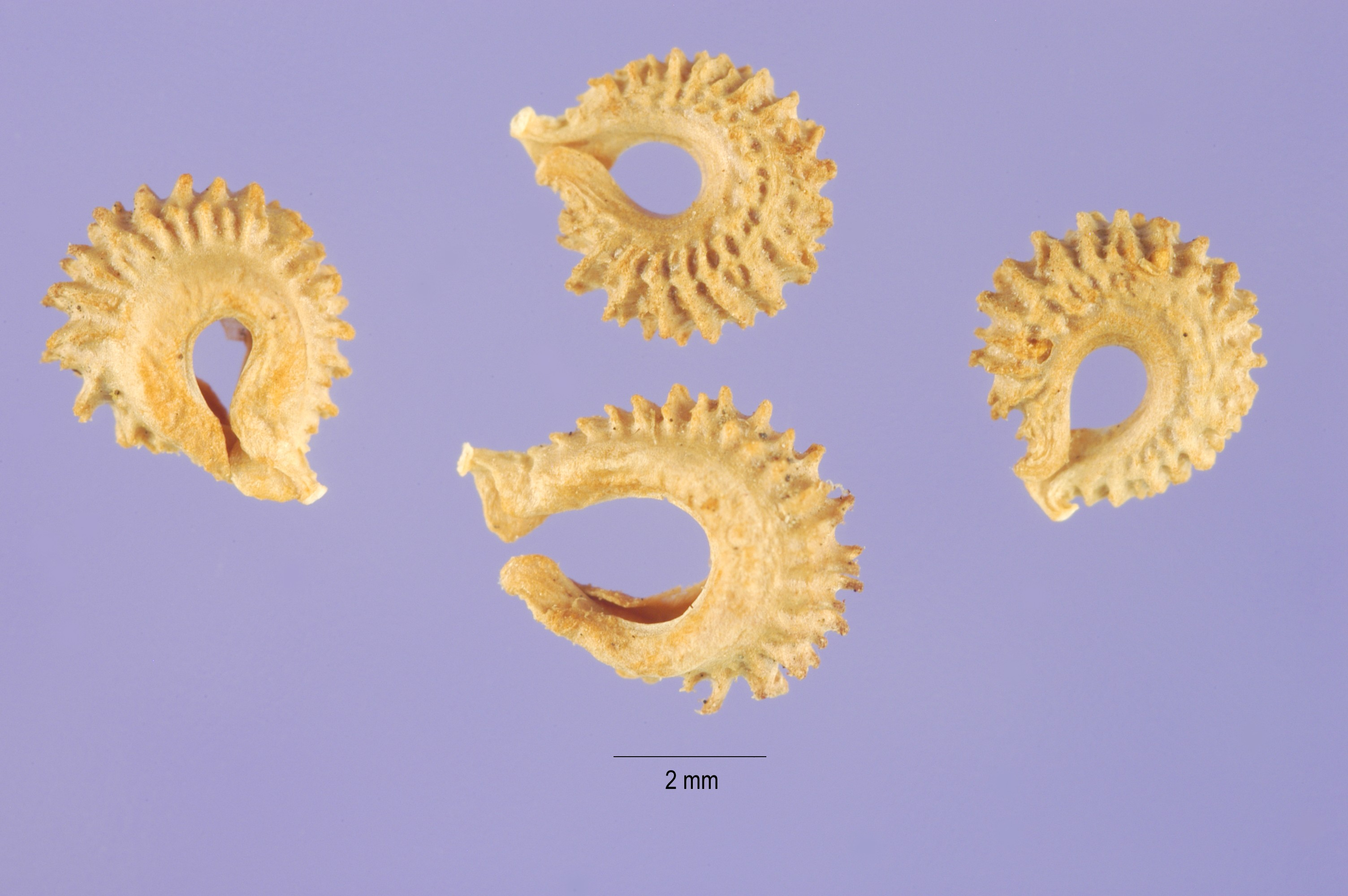 seeds of Calendula arvensis from Steve Hurst, Provided by ARS Systematic Botany and Mycology Laboratory. Turkey, Istanbul.